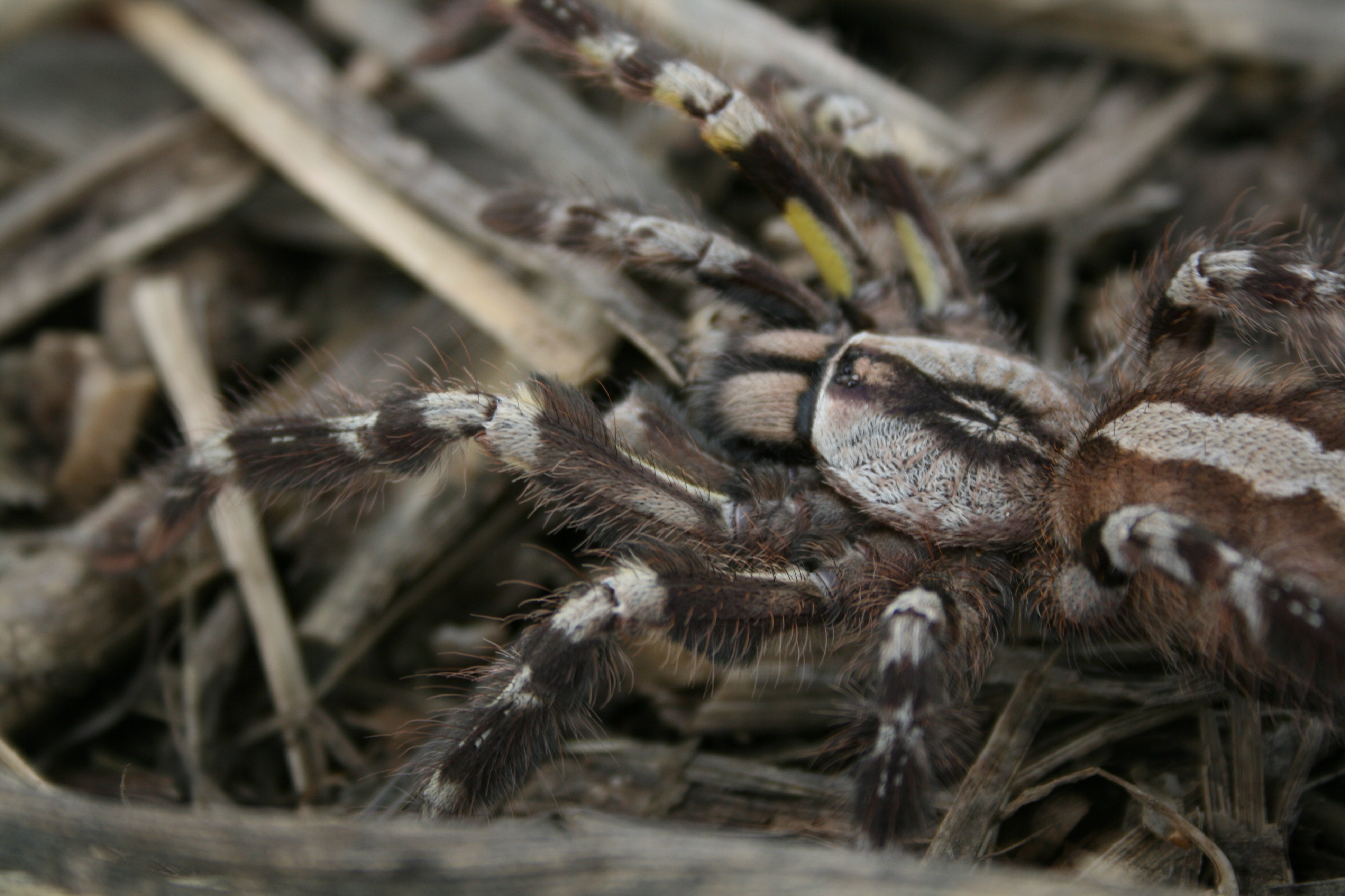 Poecilotheria regalis